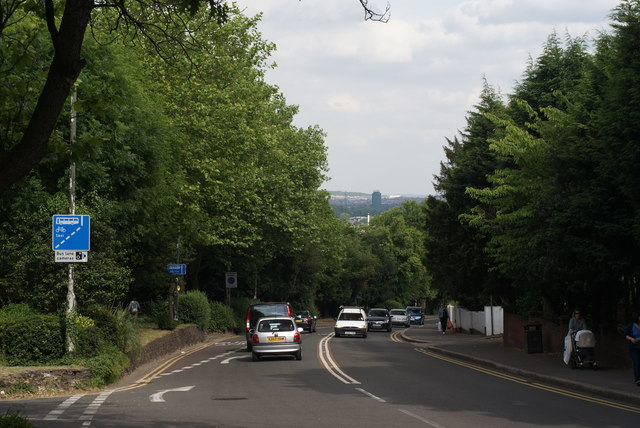 Wimbledon Hill Road View from the top of Wimbledon Hill Road.